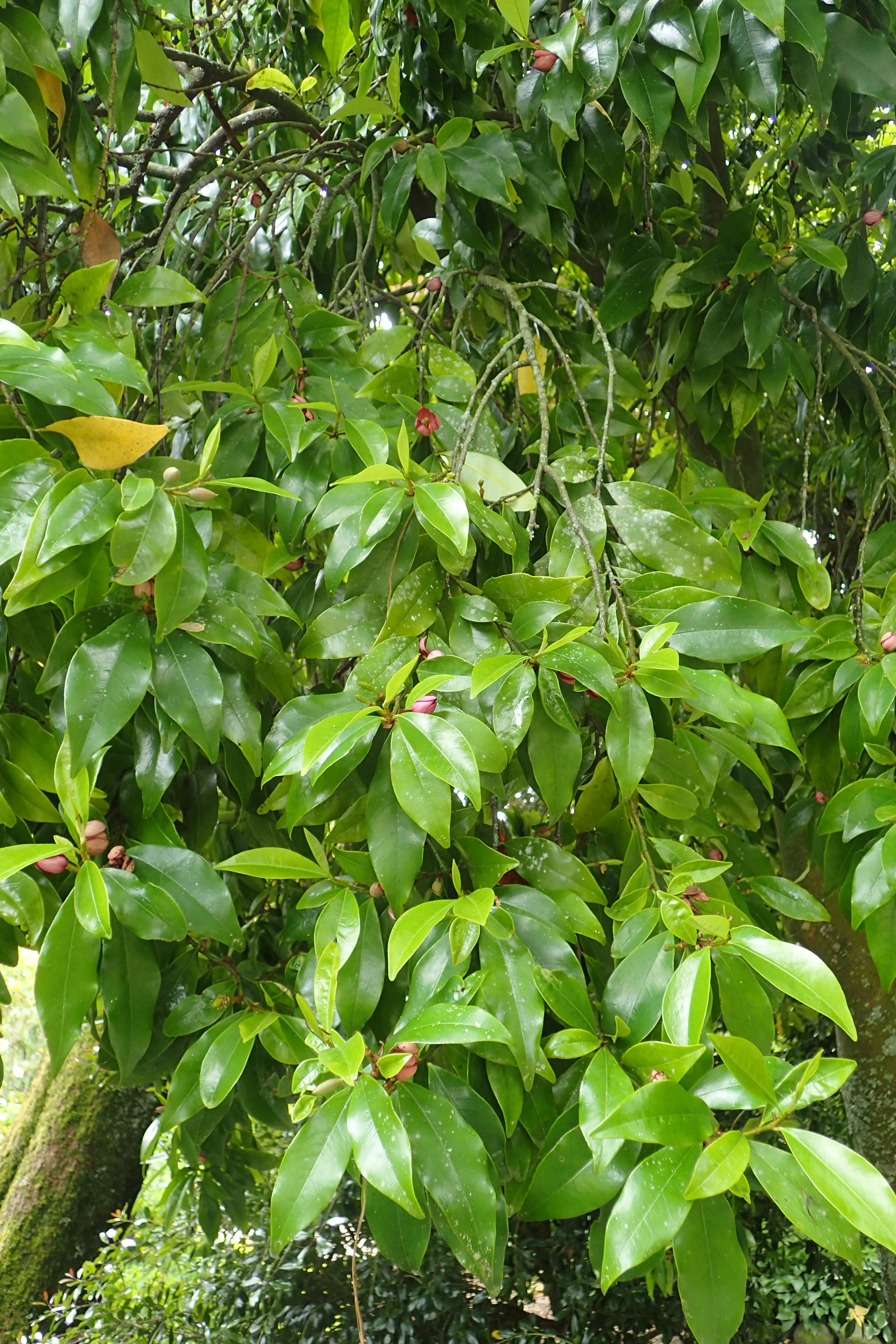 Magnolia figo in Hackfalls Arboretum, Hawkes's Bay, NZ